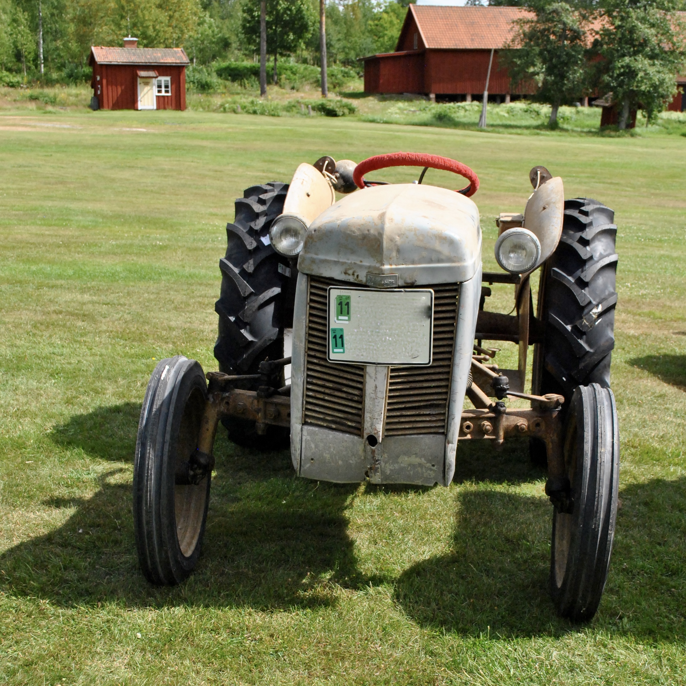 Ferguson TE20